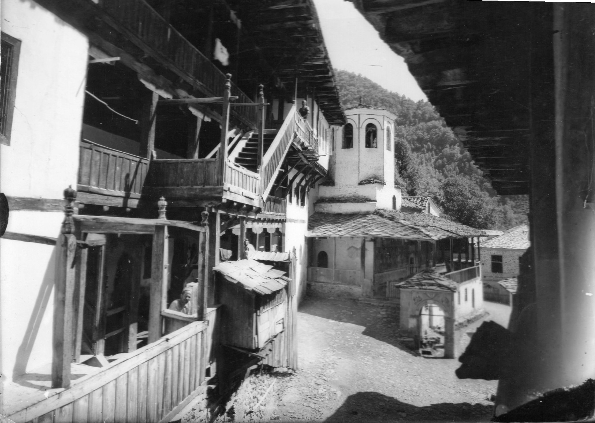 Saint Jovan Bigorski Monastery, photo from 1930's This media file is produced by Wikipedian in Residence in Category:Wikipedian in Residence at DARM in 2016.